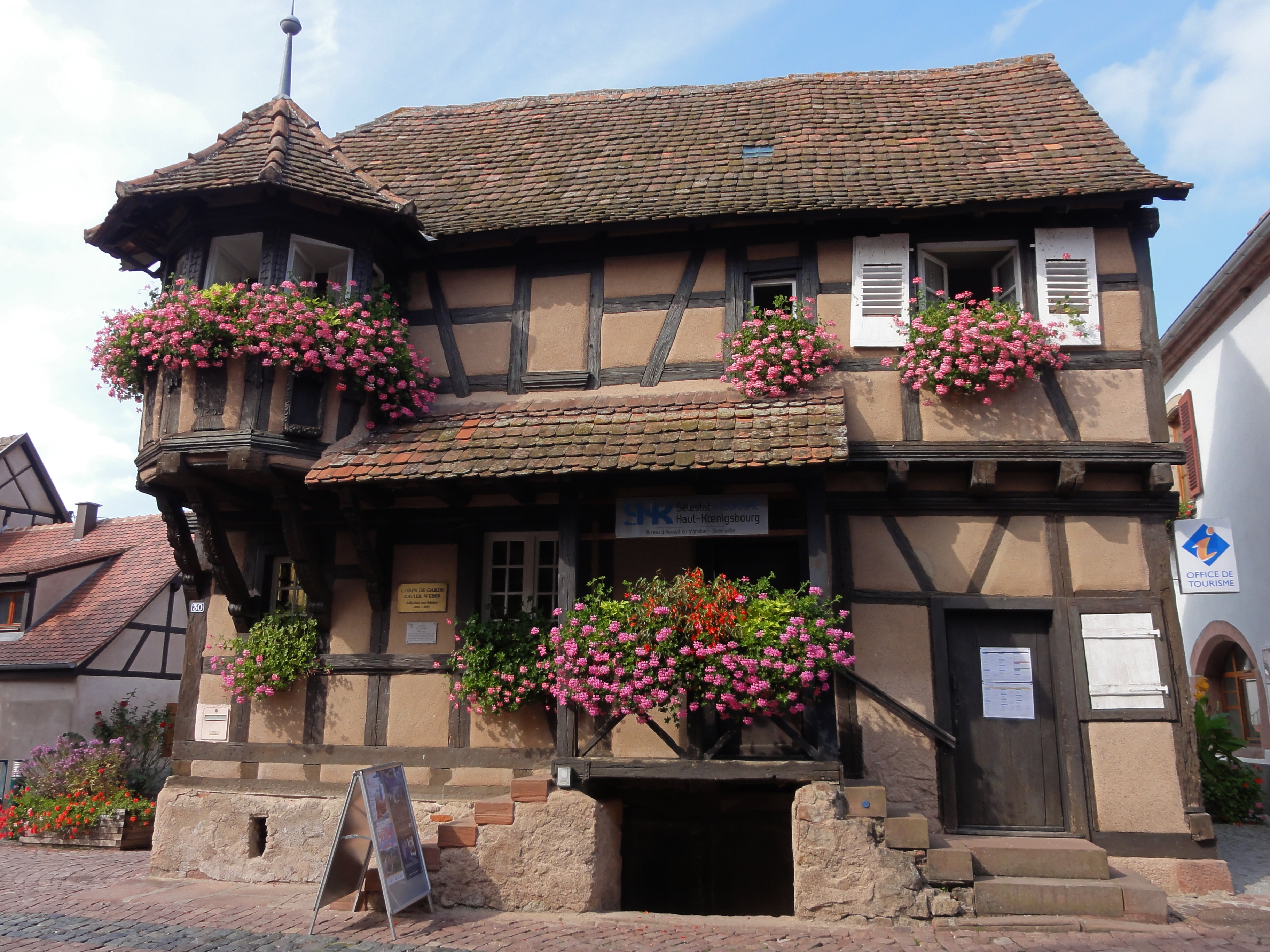 Alsace, Bas-Rhin, Scherwiller, Maison dite Corps de garde (XVIIIe): It is indexed in the Base Mérimée, a database of architectural heritage maintained by the French Ministry of Culture, under the references PA00084972 and IA00124547 .